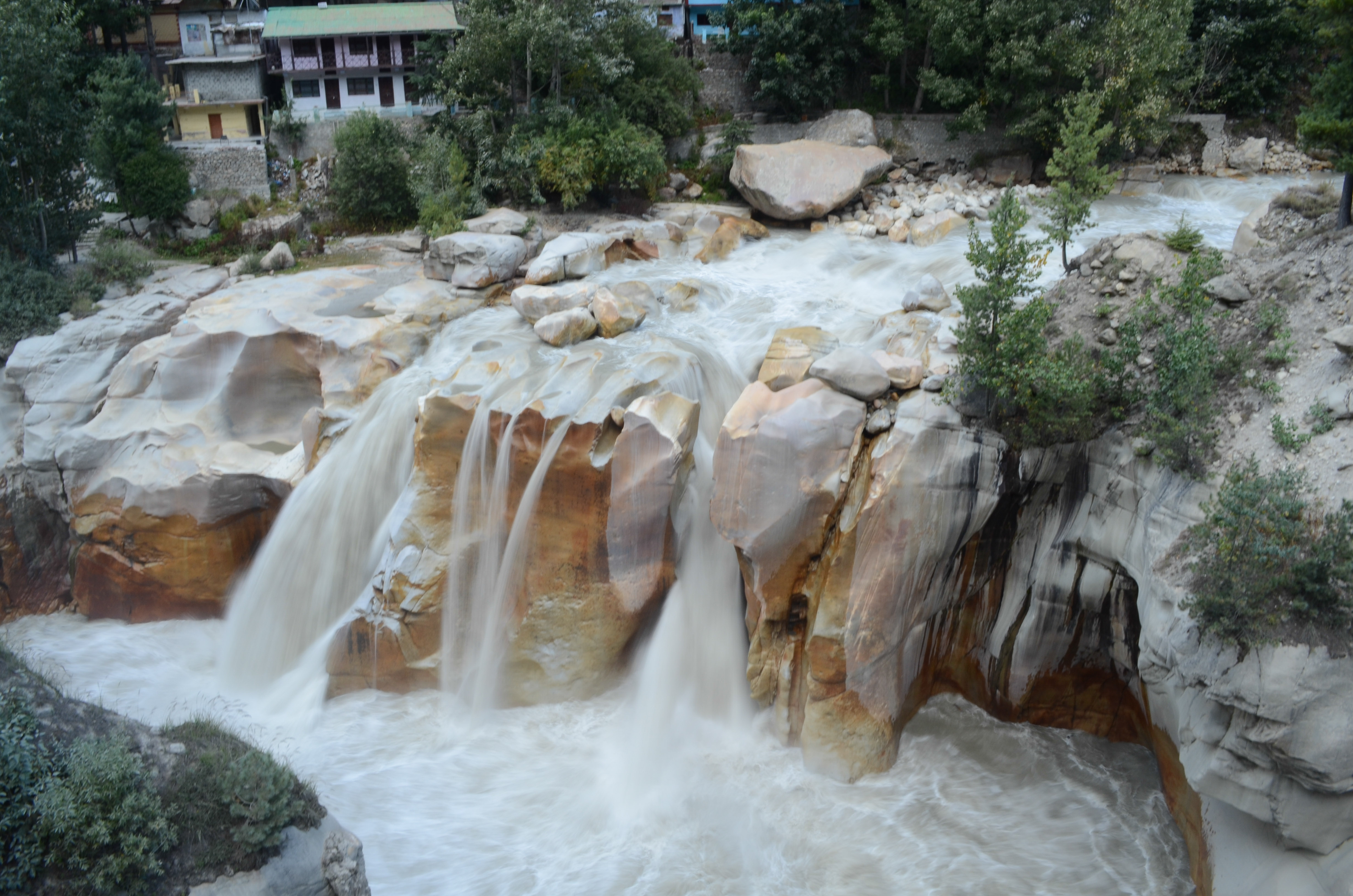 The image of Surya Kund waterfall was taken in the project WTK 2015 at Gangotri.